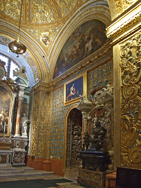 St John Cathedral, Malta